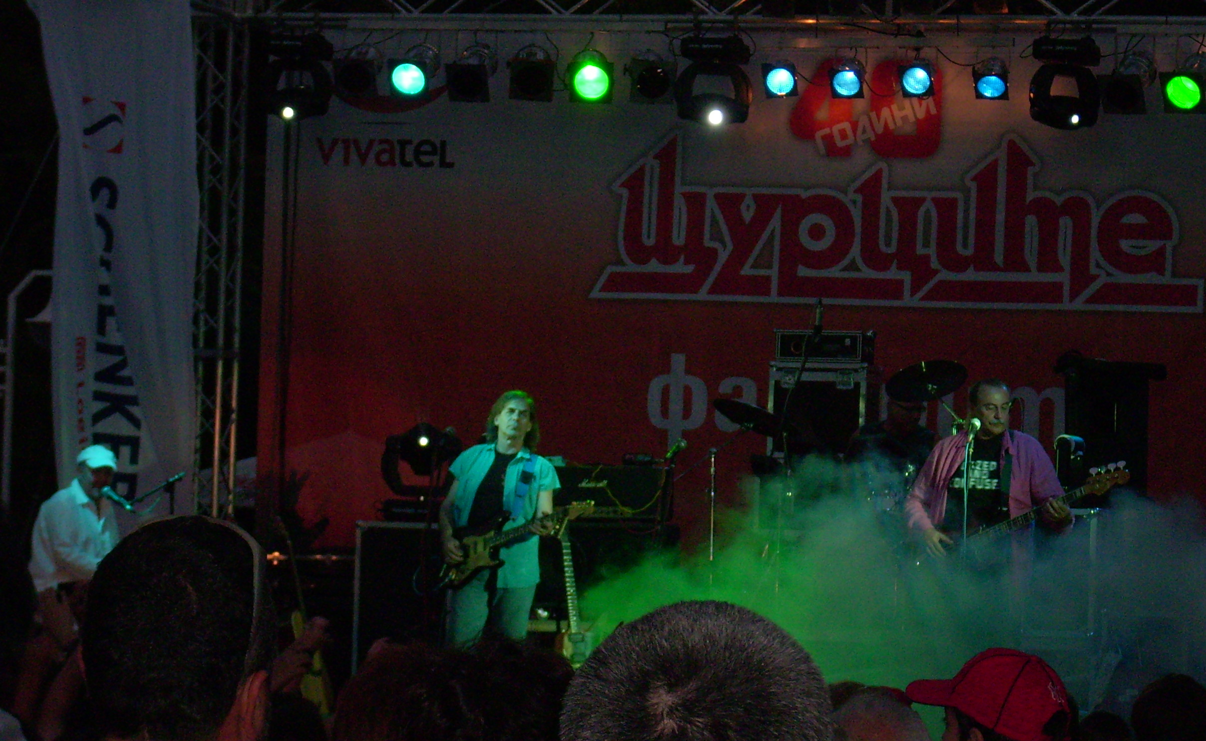 Shturtzite on stage. Stara Zagora, 13.07.2007.